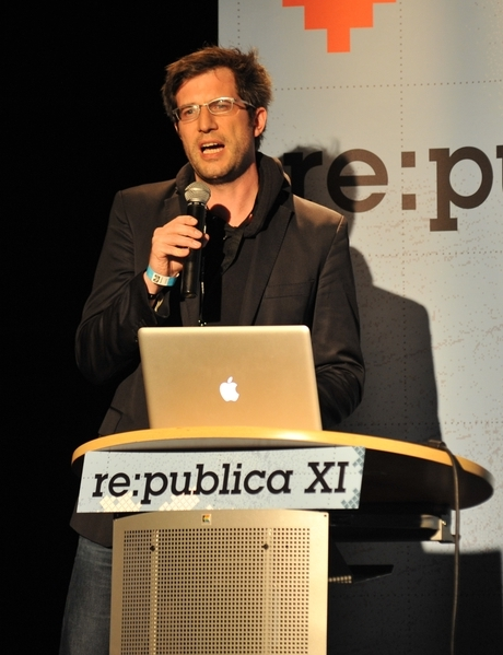 Zukünfte - Inception revisited * (cc) dirk haeger / re:publica 2011